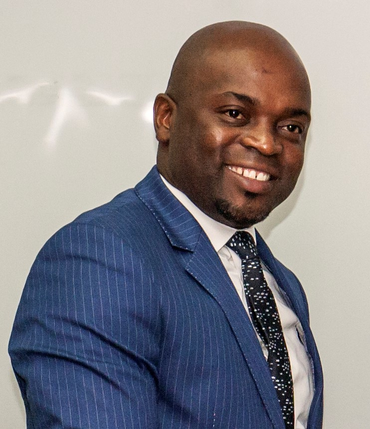 Tshwane Mayor Solly Msimanga met with former US Mayor Anthony Williams on Monday, February 13. Msimanga handed Williams a gift to celebrate their meeting which focused on urban renewal.